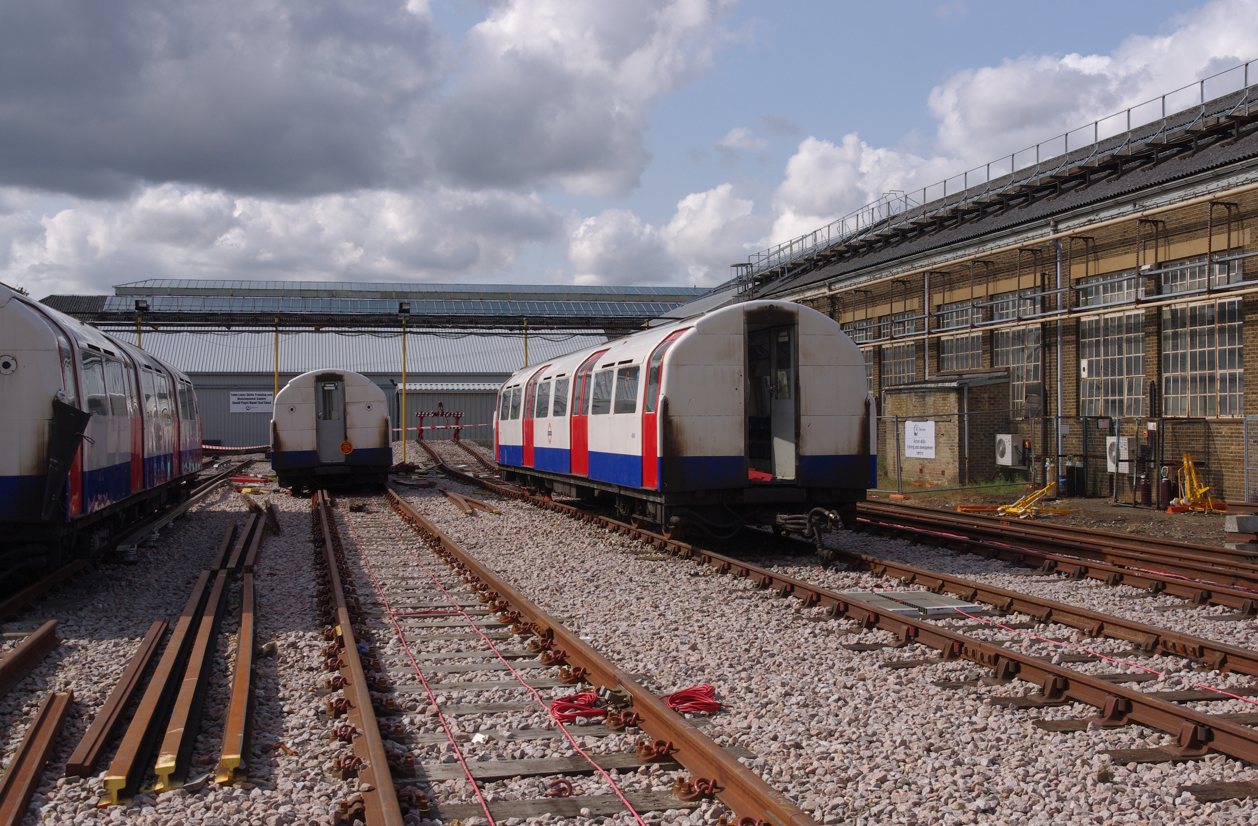 Carriages from an ex-Victoria Line 1967 Stock train sit separated on the Acton Works Emergency Response Unit's training ground. Of note are the red wires, which are part of the TBTC signalling system used on the Jubilee Line.